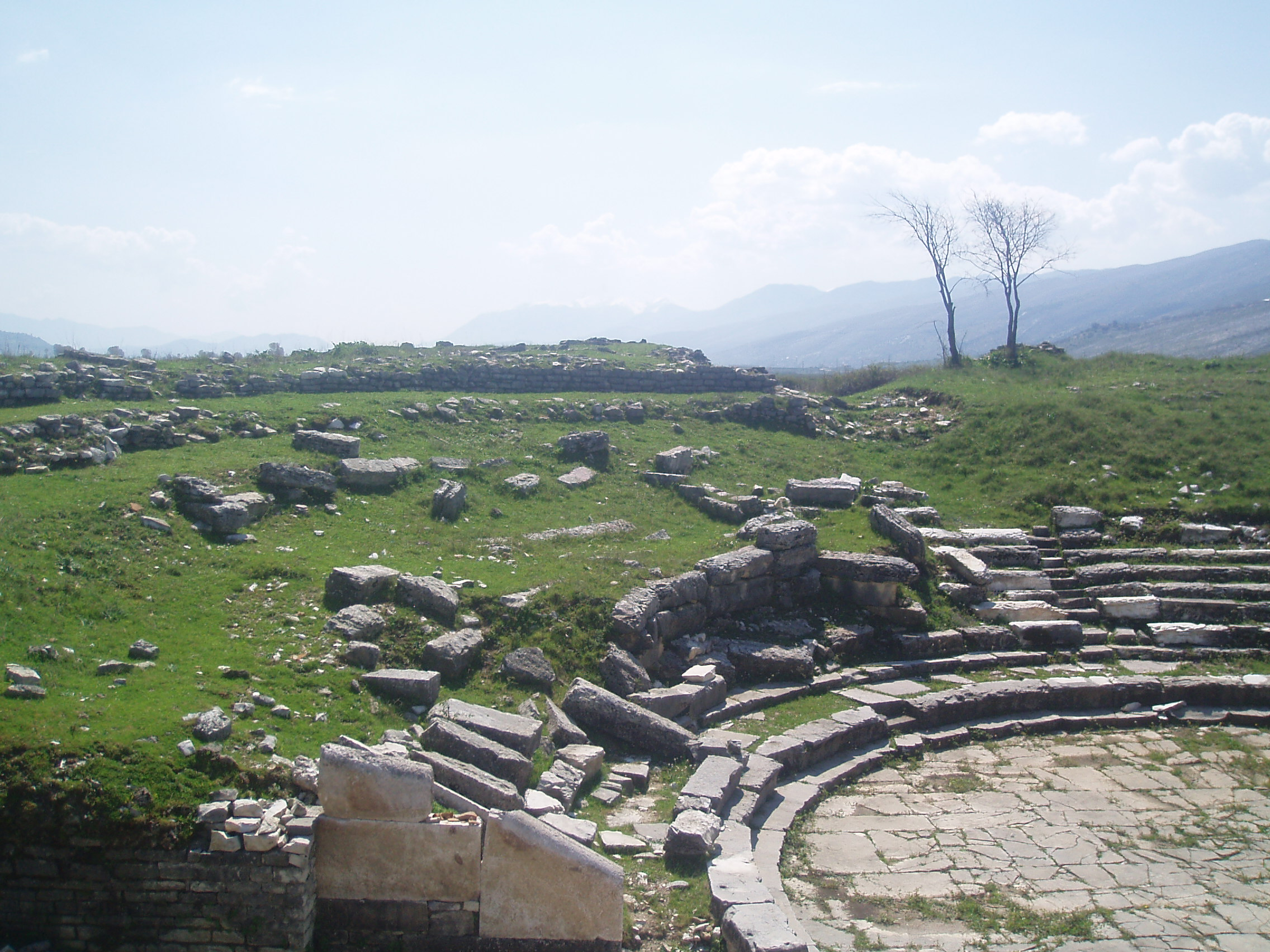 Theater of Sofratikë, Gjirokastër, Albania